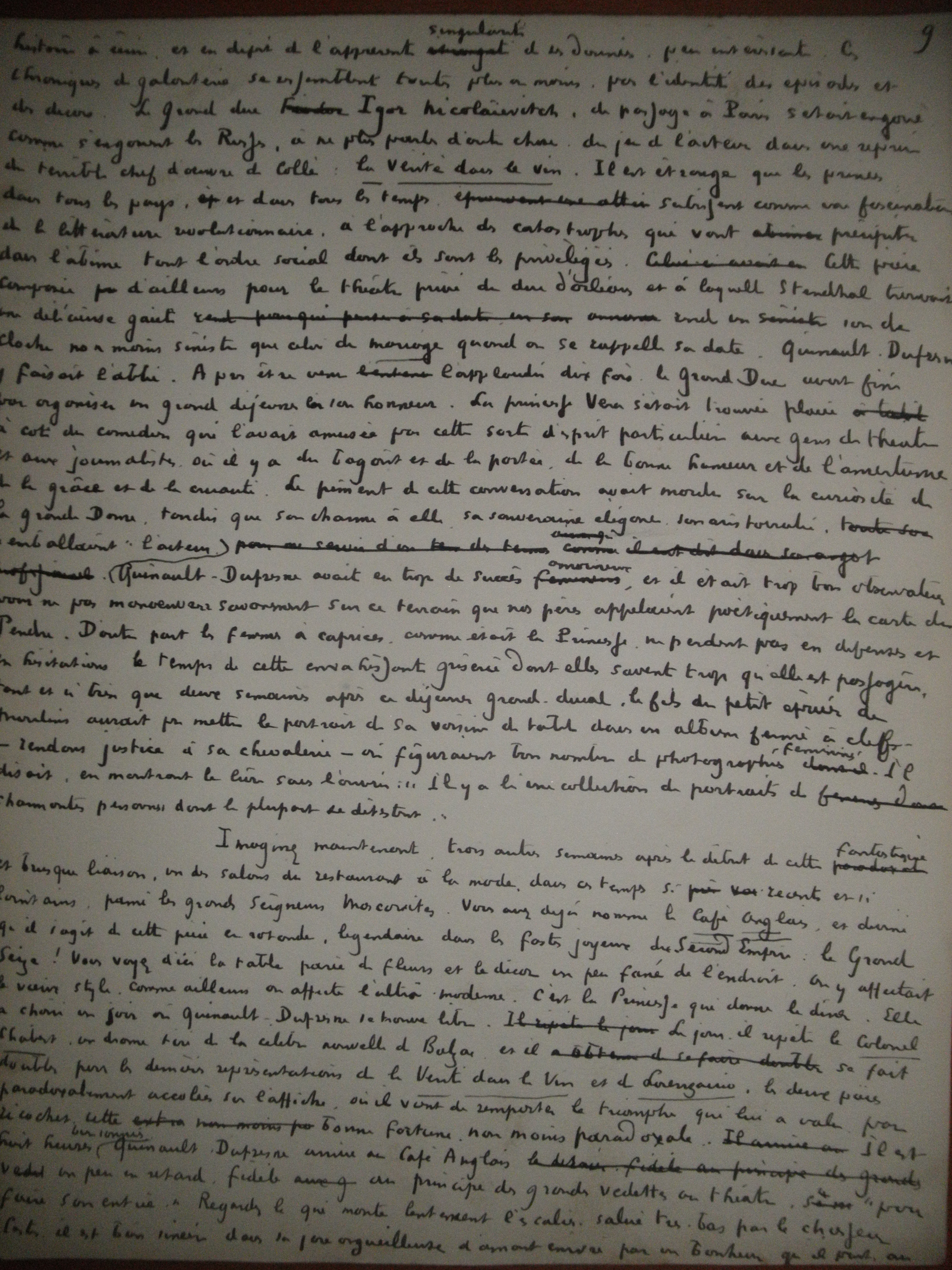 beau rôle 9